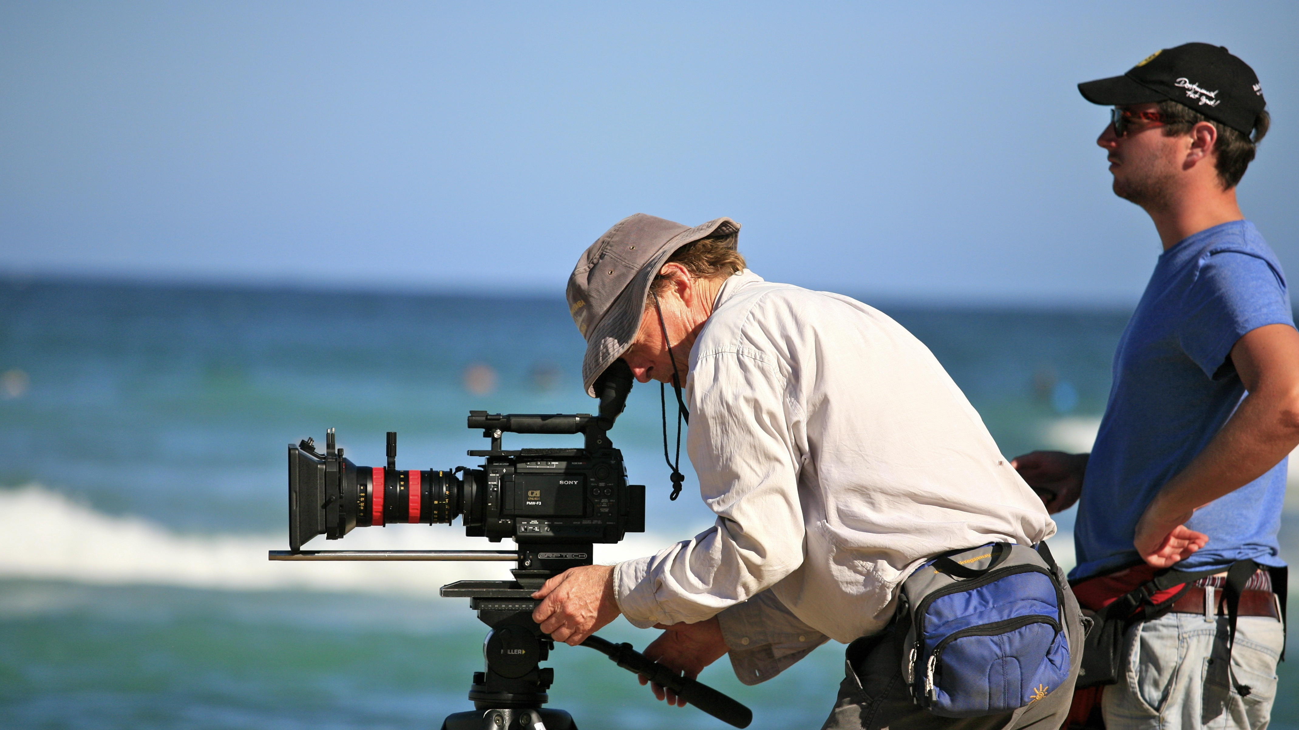 On set of filming a documentary on a Sydney beach